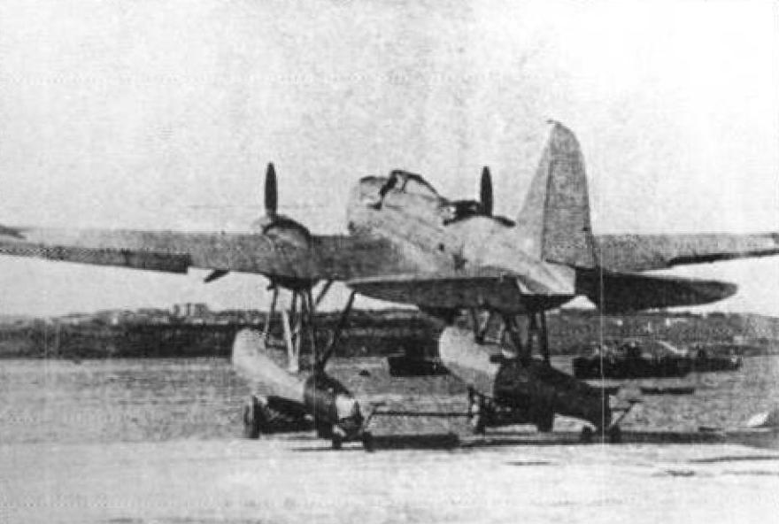 DB-3TP